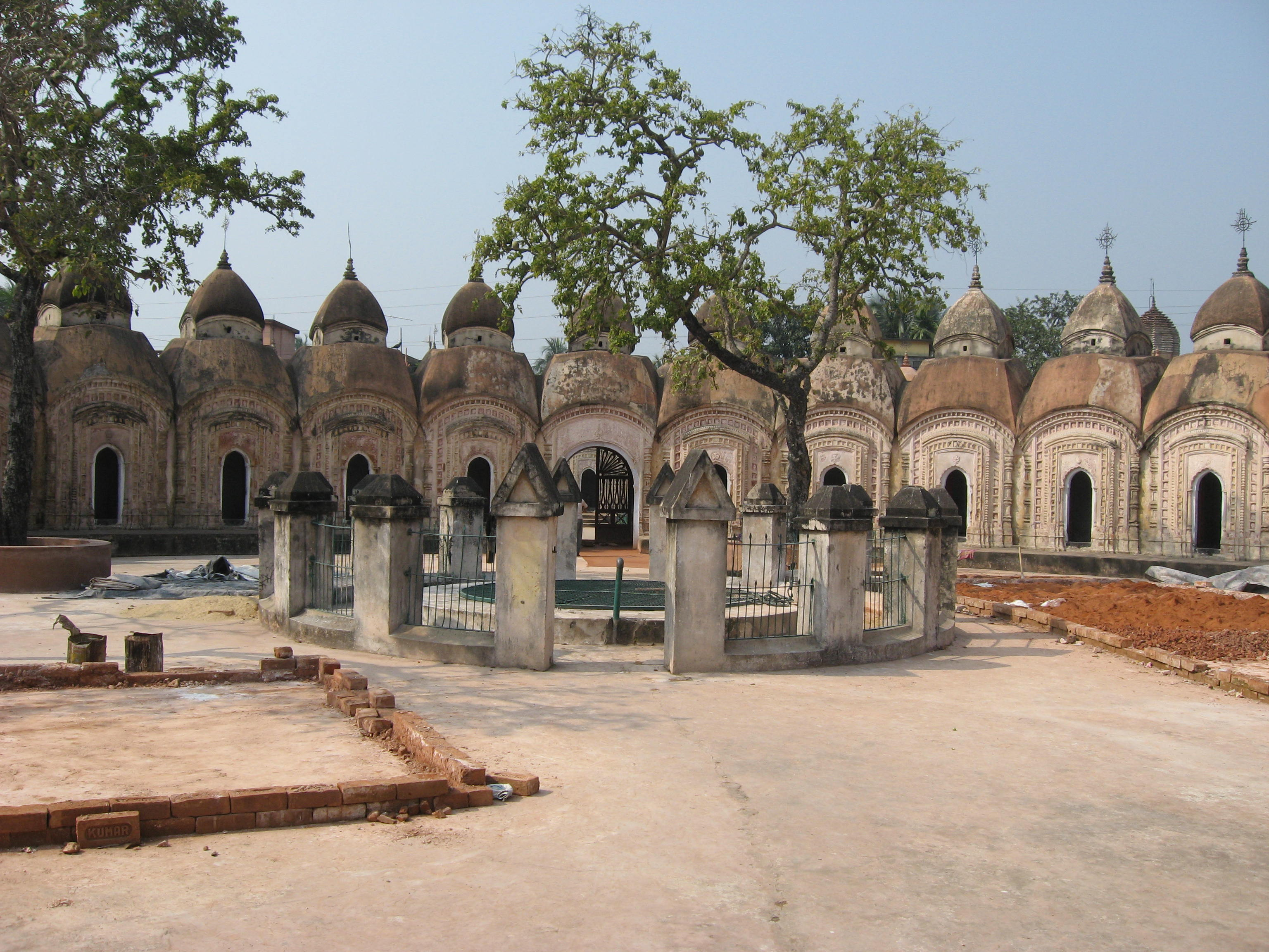 108 Siva Temple: Built by Maharaja Teja Chandra Bahadur in 1809 AD. These Atchala brick temples are made out of auspicious numerical combination in two concentric circles and dedicated to Siva. The Outer Circle Contains 74 temples and inner circle has 34 temples. The Temples represent beads in a Rosary symbolically. ১০৮ শিব মন্দির: ১৮০৯ খ্রিষ্টাব্দে মহারাজ তেজ চন্দ্র বাহাদুর এই ইঁটের তৈরি আটচালা মন্দিরগুলি নির্মাণ করেন । যেগুলি শুভসংখ্যক এবং দুইটি বৃত্তাকার সারিতে বিন্যস্ত । বাইরের বৃত্তটিতে রয়েছে ৭৪ টি মন্দির এবং ভিতরের বৃত্তে ৩৪টি । মন্দিরগুলি জপমালার প্রতীক হিসাবে সম্ভবত উপস্থাপিত হয়েছে ।